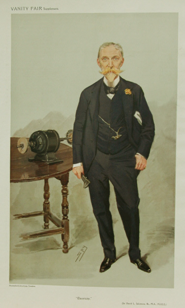 Caricature of Sir David Lionel Goldsmid-Stern-Salomons by Sly (Sir Leslie Ward) for Vanity Fair Magazine (17 June 1908) Caption Reads "Electricity"